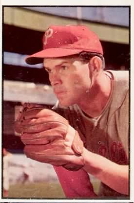 1953 Bowman baseball card of Robin Roberts of the Philadelphia Phillies #65. PD-not-renewed